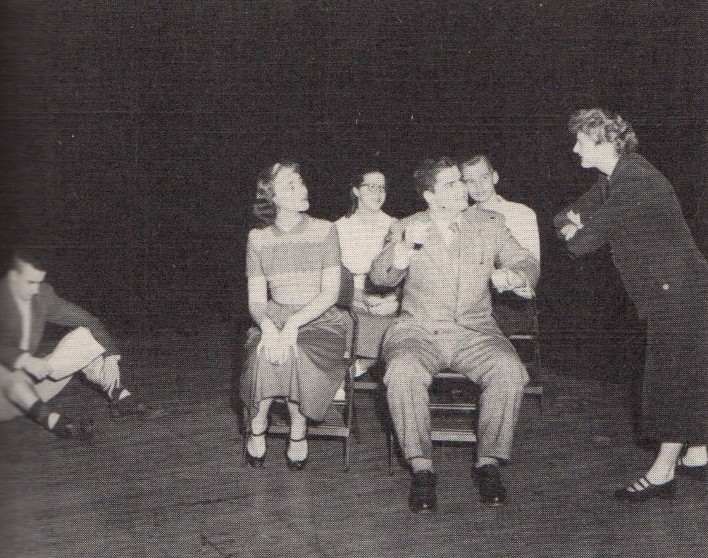 Photograph of the performance of The Happy Journey to Trenton and Camden, by Thornton Wilder, at Shimer College in 1951-1952, from the 1952 yearbook of Shimer College. Now a liberal arts college in Chicago, Shimer was then located in Mount Carroll, Illinois. The cast, all of whom are shown, included Pat Smith, Ben Gorman, Keith Winkelman, Sharon Daniels, Bruce Cushna, and Adana L'hommedieu. Published in the school's 1952 yearbook, which does not contain a copyright notice. Additionally in the public domain due to the terms of dedication of the Shimer College Collection (which includes a copy of this yearbook) to NIU in 1979, which vested literary rights in the collection in the public.